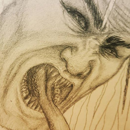 A vampiric were-beast, or a cannibalistic shape-shifter in the Philippines